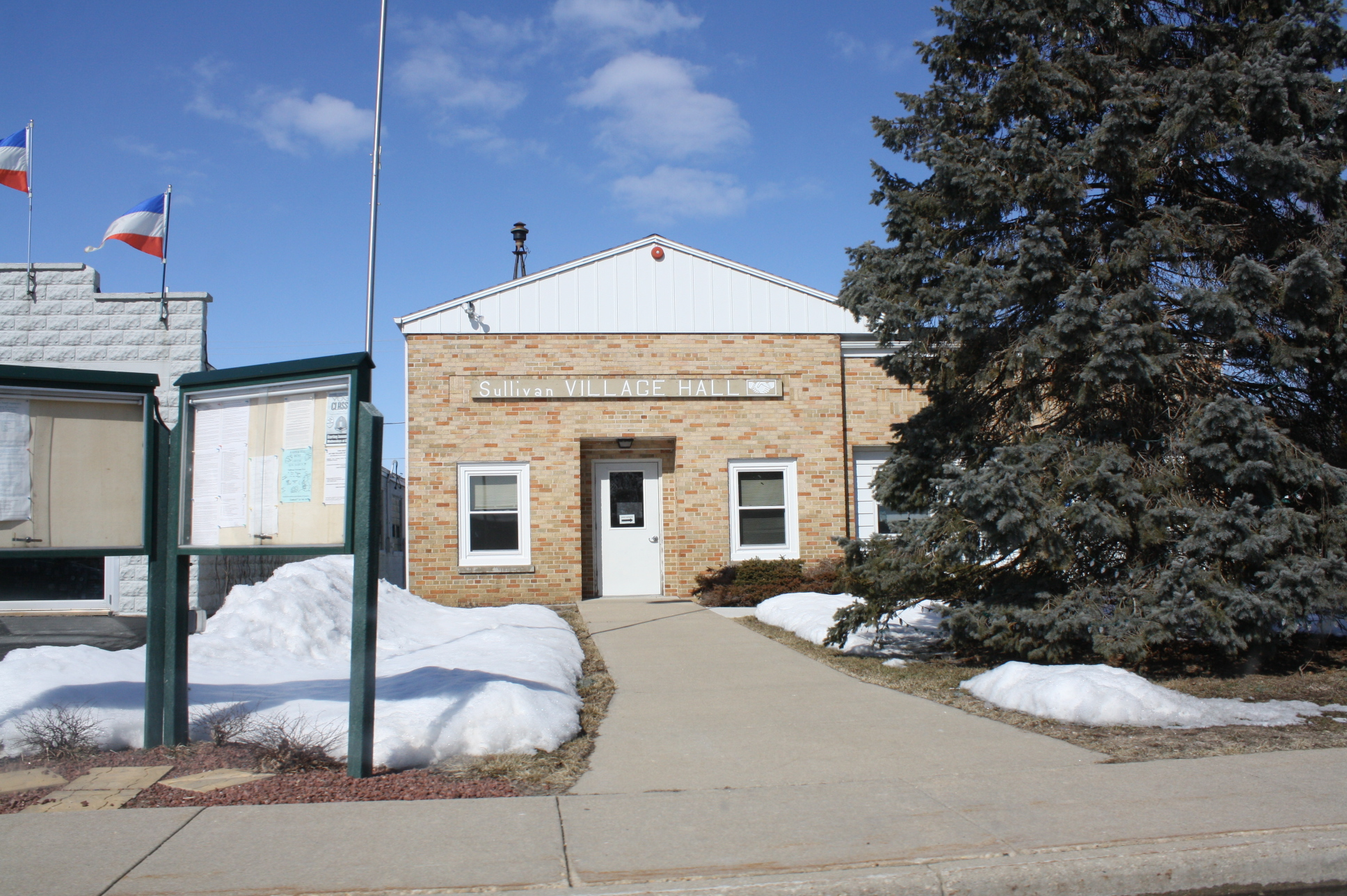 The village hall for Sullivan, Wisconsin.